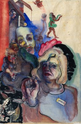 Selfportrait in fantastic company